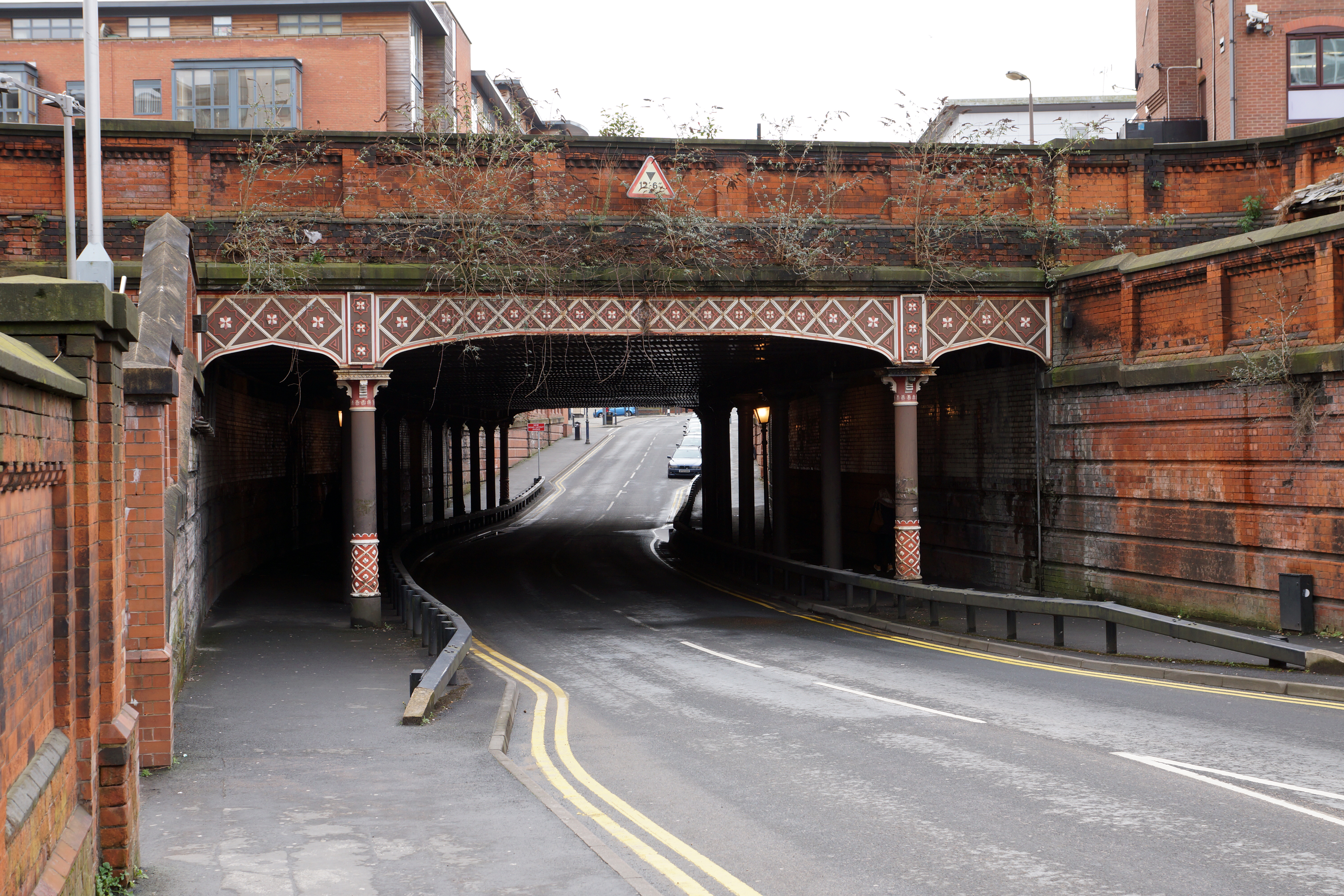 Holliday Street Aqueduct, built in 1870, in located in central Birmingham, England. The aqueduct carries the Worcester and Birmingham Canal over Holliday street. The road is adjacent to two rail tunnels which run parallel to it, to the south.